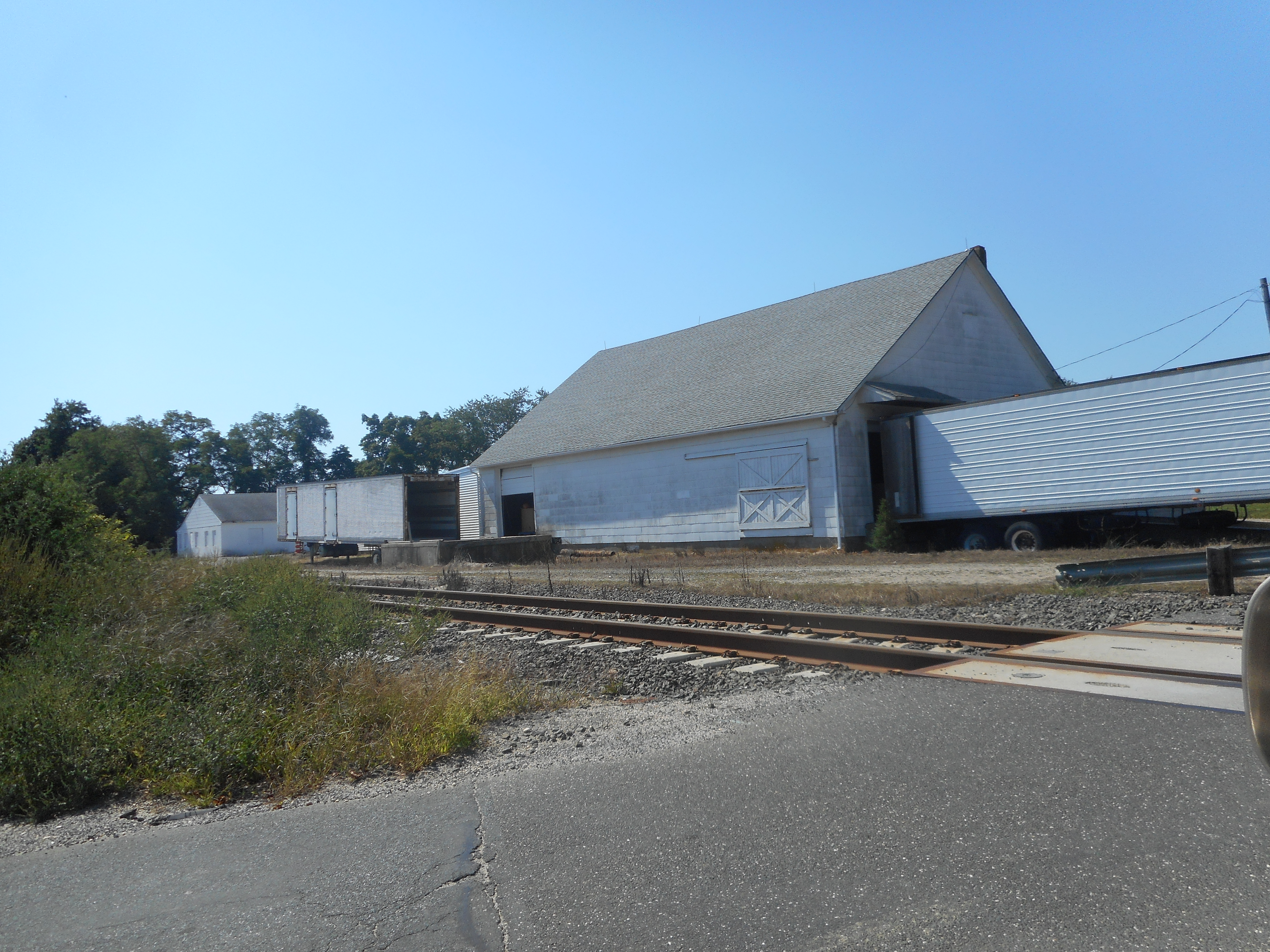 A barn on Laurel Lane on the northwest corner of the grade crossing with the Main Line of the Long Island Rail Road in Laurel, New York. Laurel Lane runs along the Riverhead-Southold Town Line. So while Laurel itself is located on the Southold Town side, the former LIRR station was located on the Riverhead Town side, not to mention on the north side of the tracks in front of that barn.